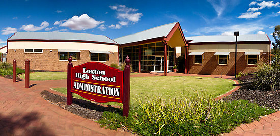 The main entrance to Loxton High School